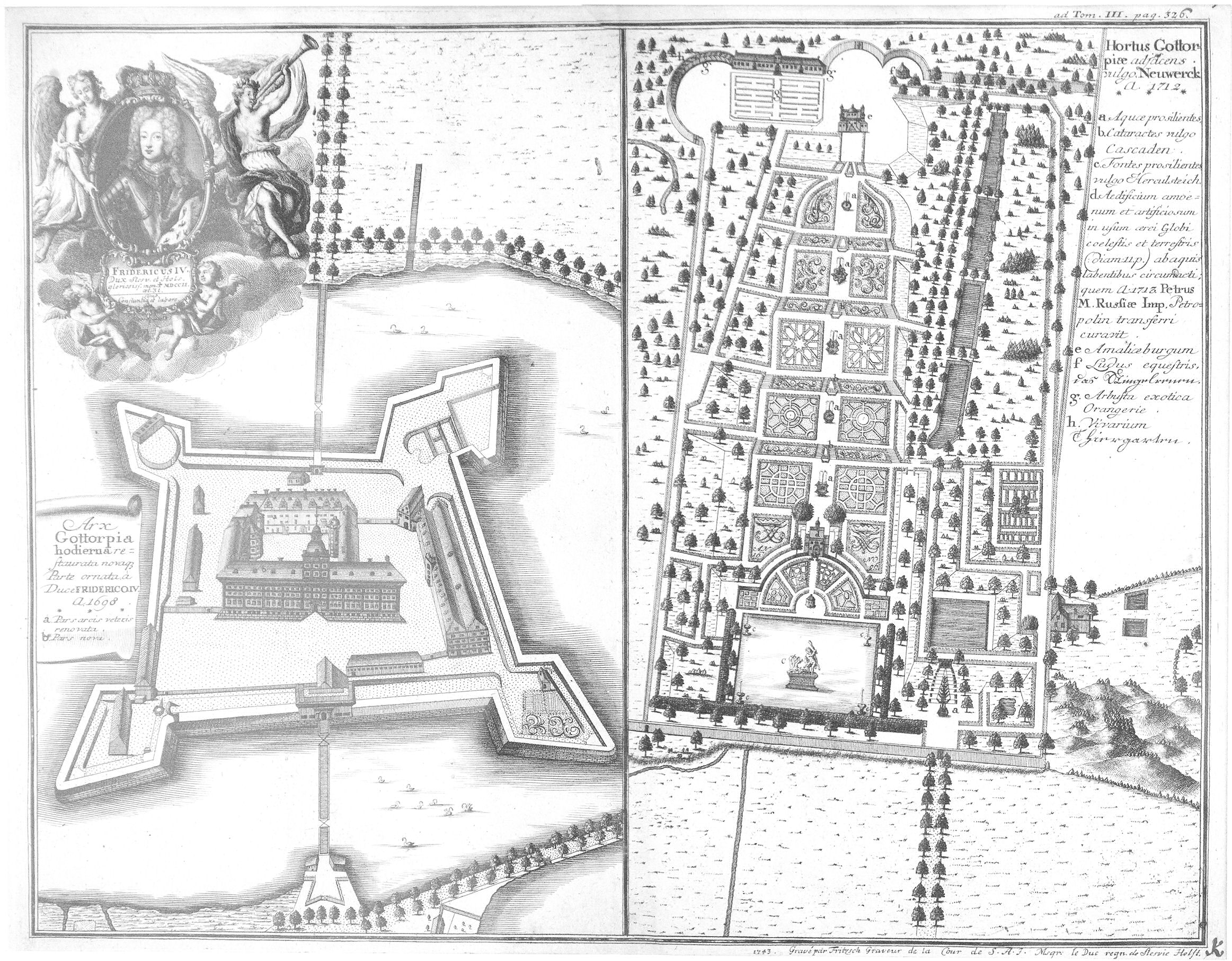 Copper engraving of Schloss Gottorf and the Neuwerkgarten. The southern wing of the castle is too low, the grouping of the windows and the large roof overhang are not reproduced exactly. Published by Ernst Joachim von Westphalen in "Monumenta inedita rerum Germanicarum praecipue Cimbricarium", Vol. 3, Leipzig 1743